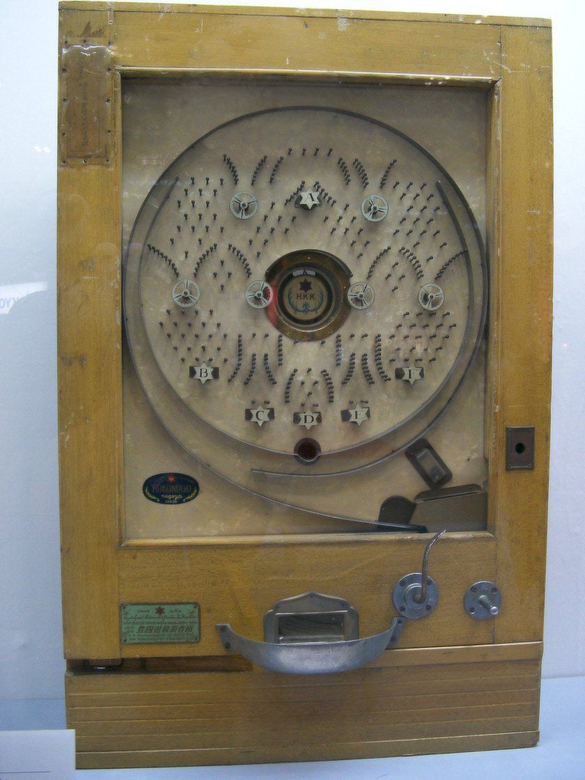 This Photo is a PACHINKO game machine that is displayed at PACHINKO-PACHISURO FAIR 02.